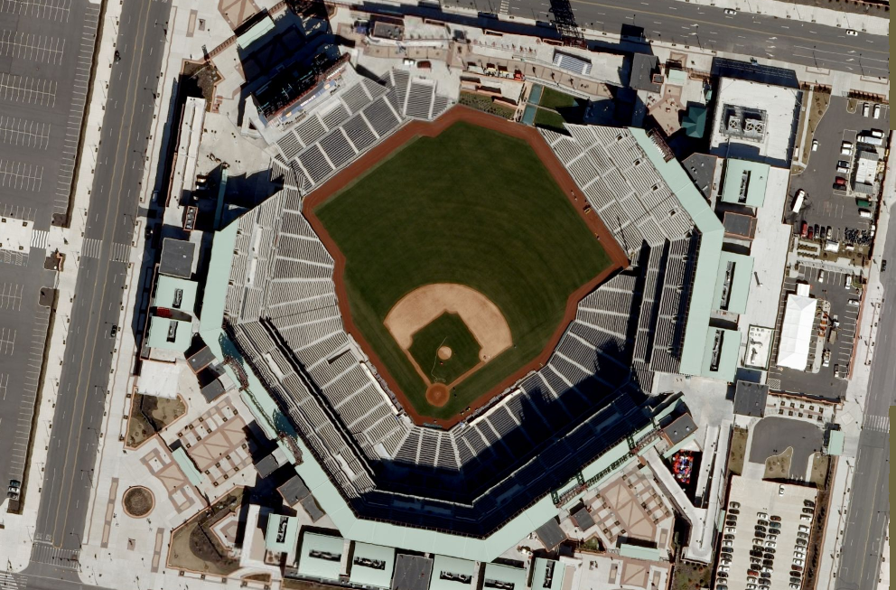 Citizens Bank Park satellite view, nasa world wind